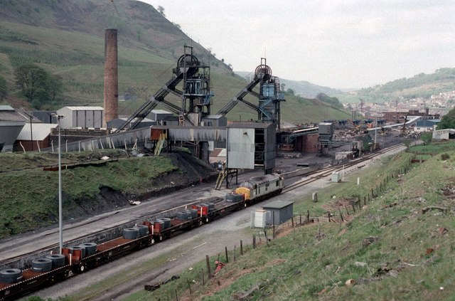 Marine Colliery near Cwm Steel coil for the Ebbw Vale tinplate works passes the colliery at Marine which was the last deep mine to work in the Ebbw valleys; it had closed in March 1989 just a few weeks before this picture was taken. Steel and coal once were the great industries which made South Wales so busy.